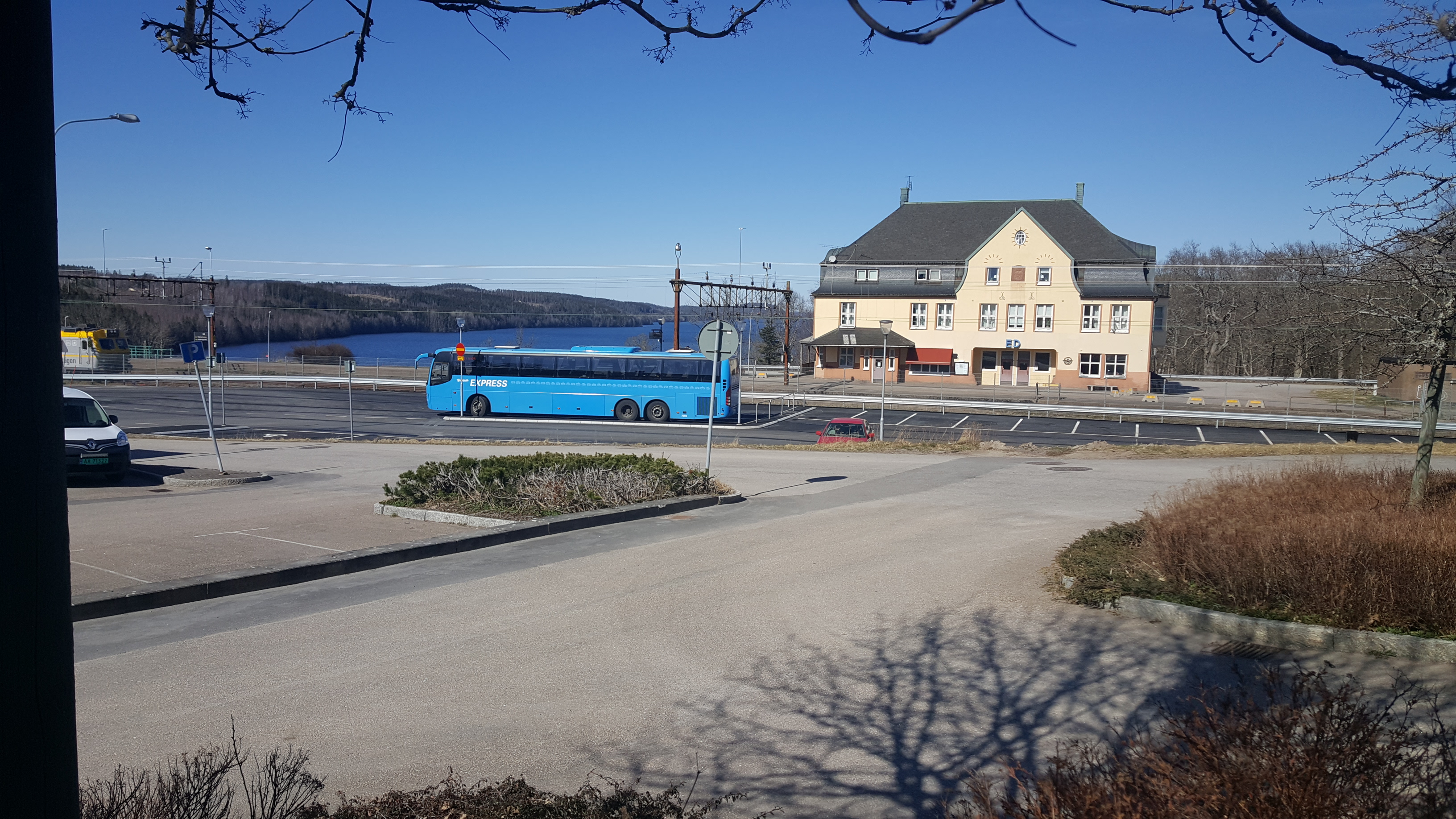 Ed railway station and Lake Stora Le, Sweden